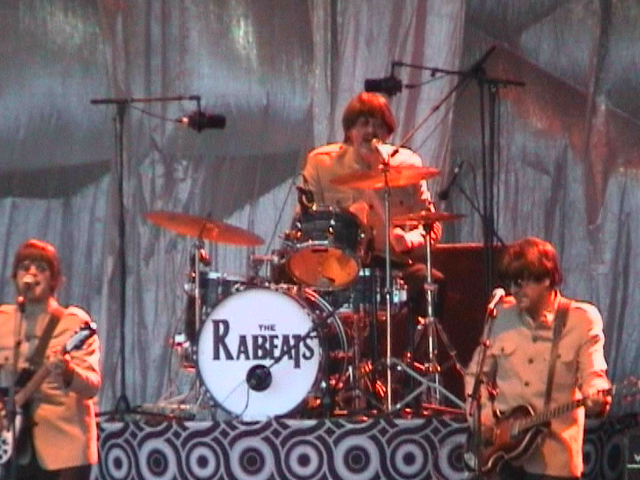 The Rabeats (Tribute to The Beatles) performing on July 31, 2009 at Mers-les-Bains (France) Sly, Flamm, Marcello